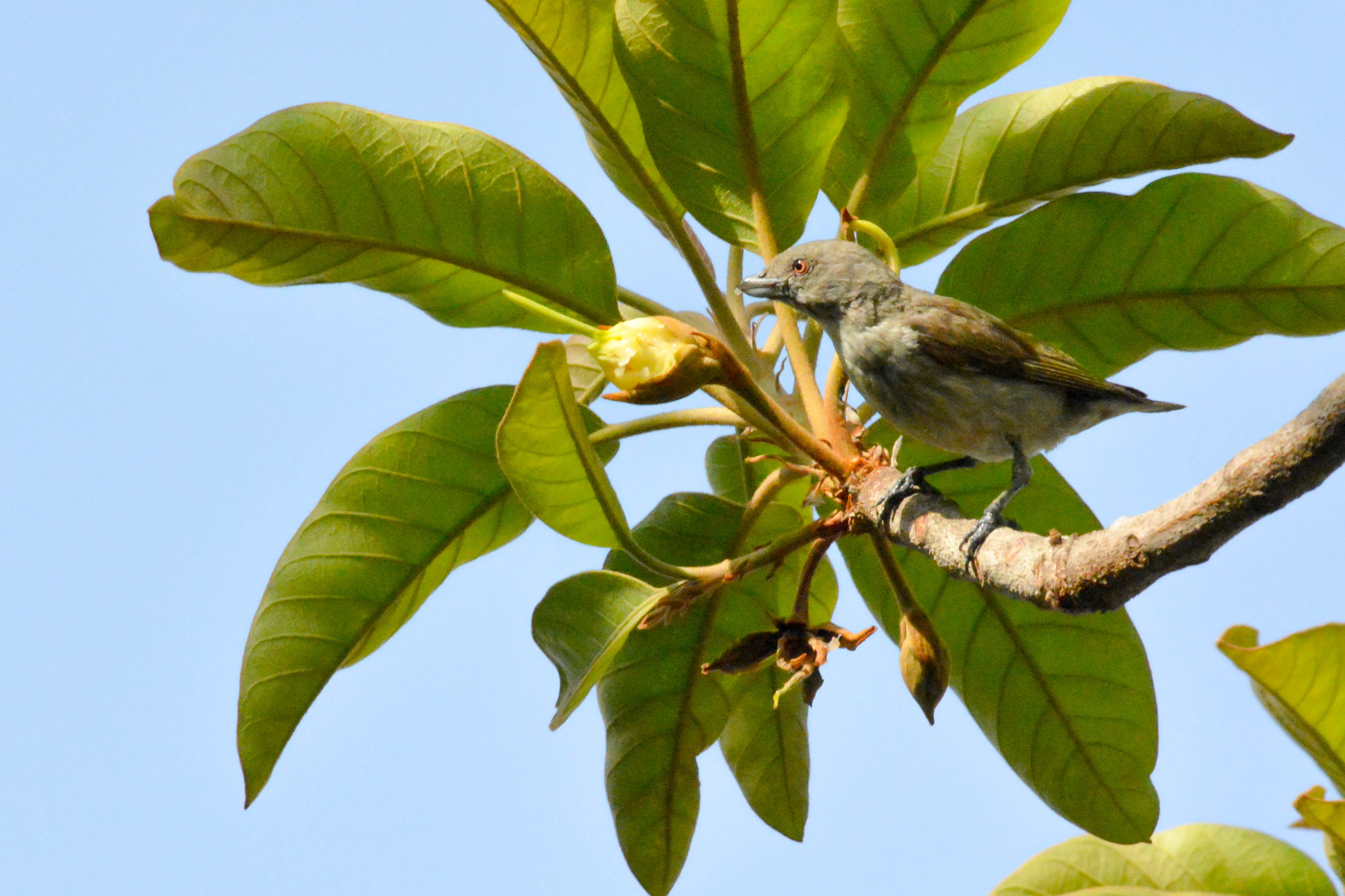 Plain Flower Pecker actually plucking the flower(u can see its beak) .At Ananthagiri hills,Vikarabad,Telangana.